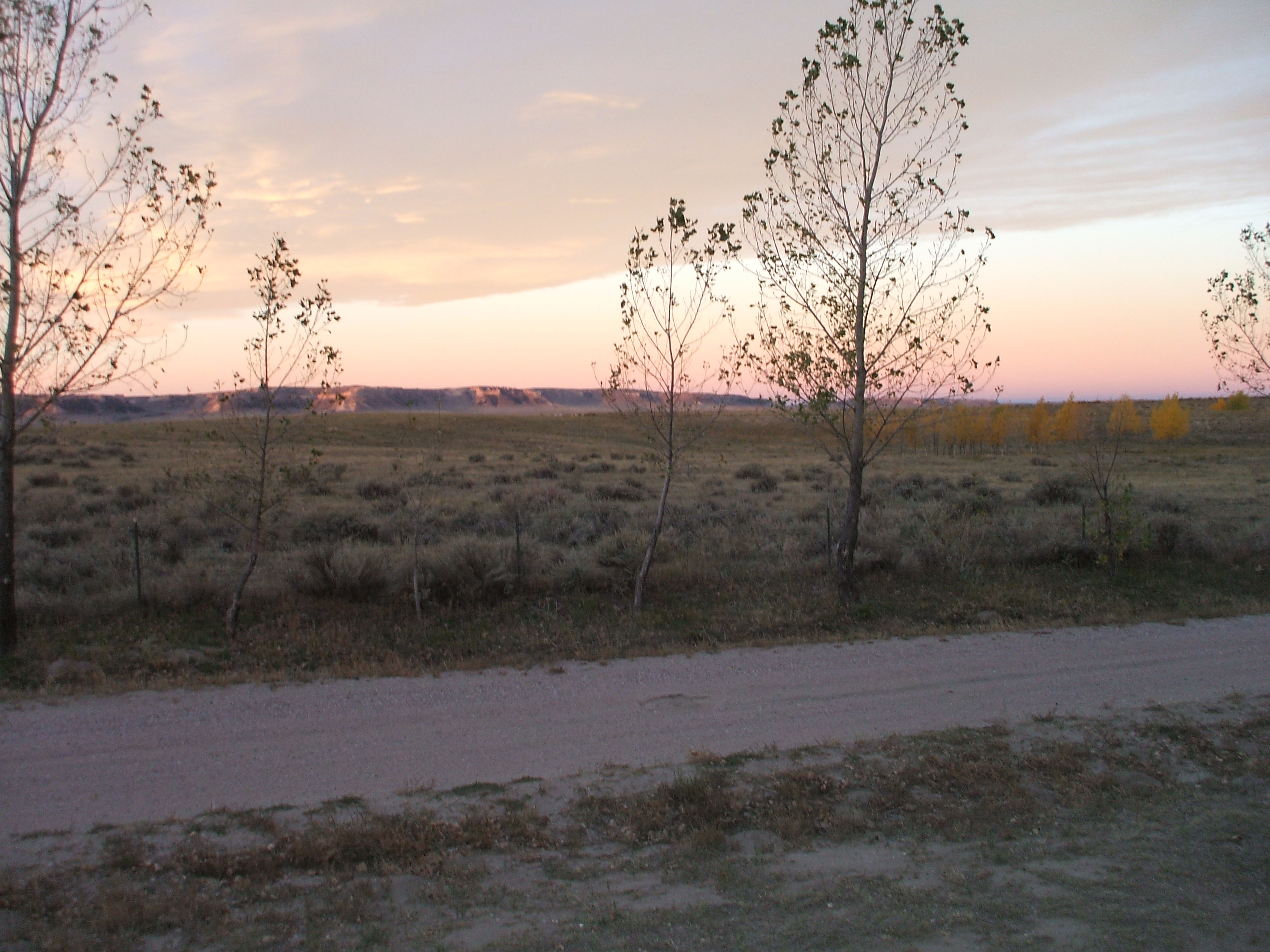 Looking west at Bear Mountain mesa during morning twilight from Hawk Springs State Recreation Area, in Goshen County, Wyoming.